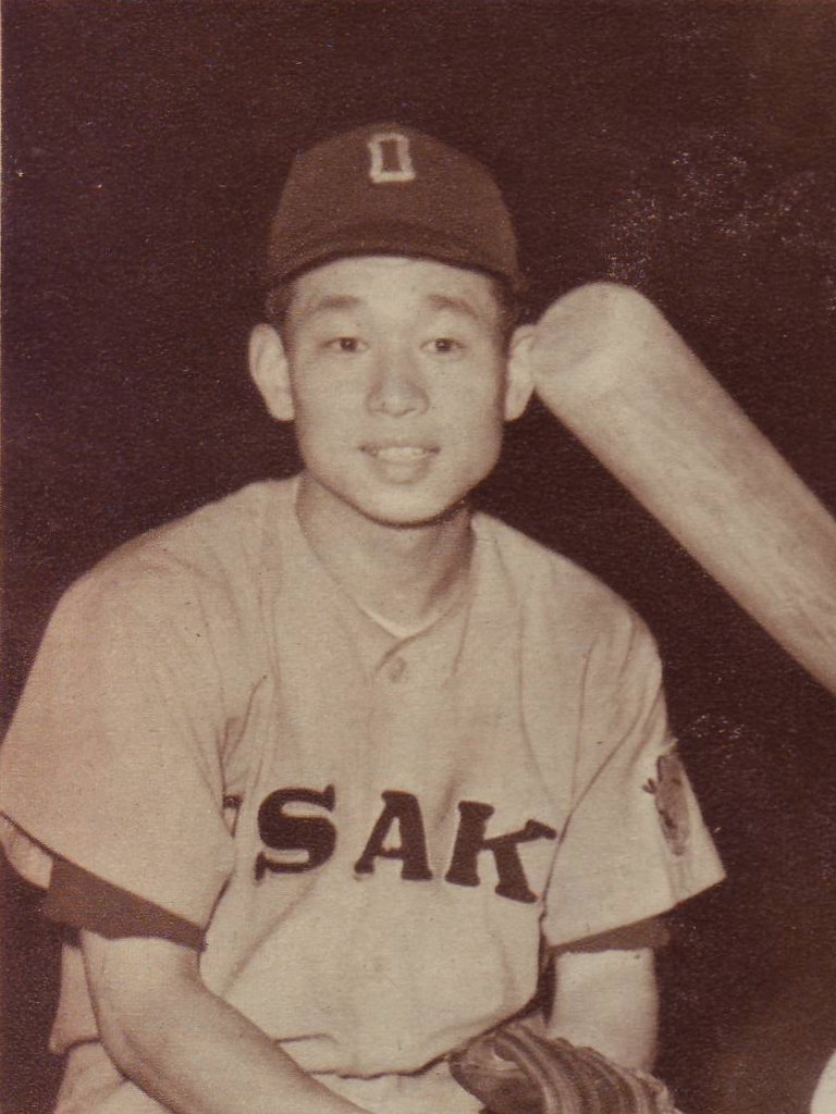 Yoshio Yoshida. taken in 1956.